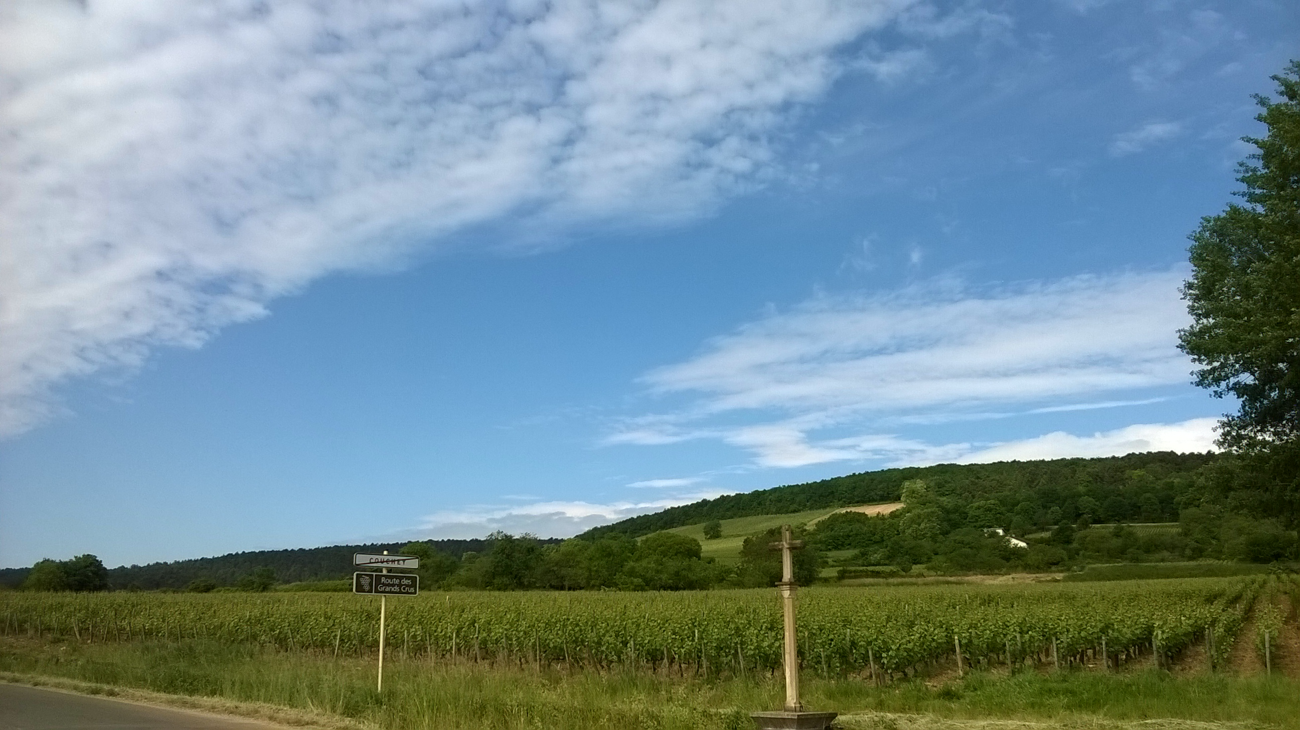 Image of Route des Grands Crus near Fixin, Burgundy